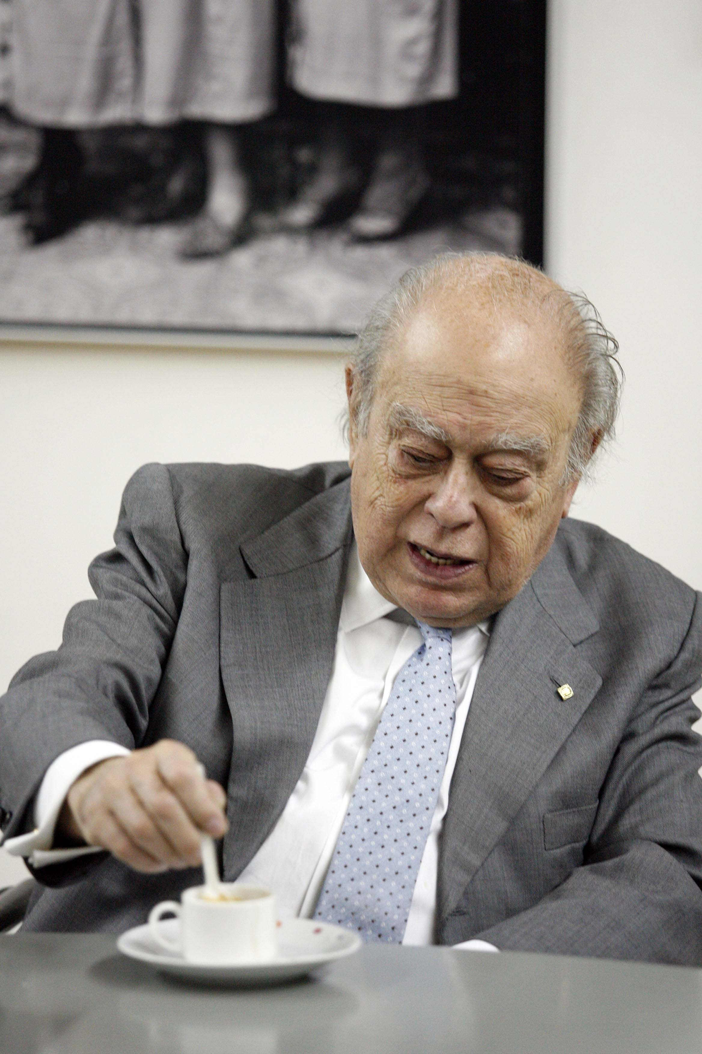 ANIOL RESCLOSA - CASA CULTURA I SEU OMNIUM GIRONA - CICLE DE XERRADES JOAN SALES AMB ORIOL JUNQUERAS, RAMON TREMOSA, JORDI PUJOL, MARIA BOHIGAS I MURIEL CASALS